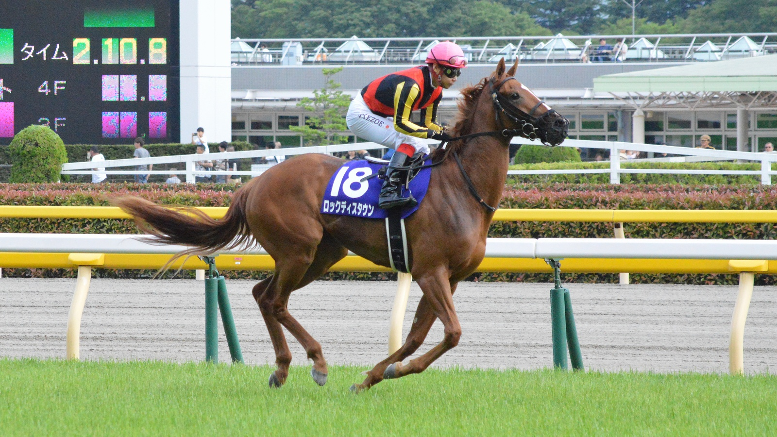 Japanese race horse Rock This Town at Tokyo racecourse. Tokyo (JPN) 6 May 2018 NHK Mile Cup (Grade 1) (3yo Colts & Fillies) (Turf) 1m Firm RankHorse NameOddsAgeWgtTrainerJockey1stKeiai Nautique (JPN)118/10C39-0Osamu HirataYusuke Fujioka2ndGibeon (JPN)42/10C39-0Hideaki FujiwaraMirco Demuro3rd - 17th/omission18thRock This Town (JPN)65/1F38-9Kazuo FujisawaKenichi Ikezoe